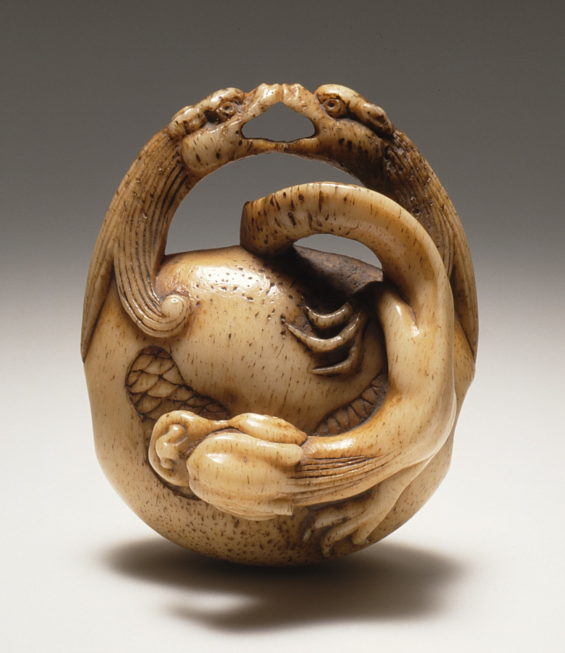 Japan, mid-19th century Alternate Title: Mokugyo Costumes; Accessories Stag antler 1 1/2 x 1 1/4 x 1 in. (3.8 x 3.1 x 2.5 cm) Raymond and Frances Bushell Collection (AC1998.249.165) Japanese Art